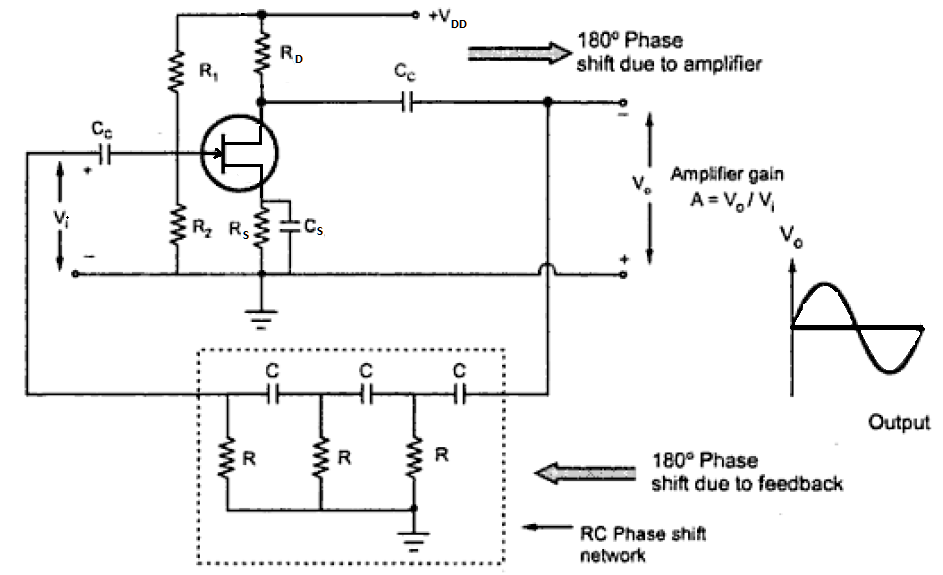 This circuit diagram is of a RC-Phase shift oscillator using JFET. The JFET Amplifier provides 180 degree phase shift, the other 180 degree phase shift is been obtained by the use of the RC ladder.